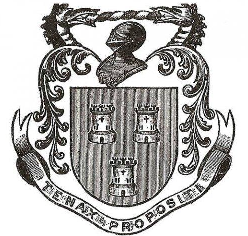 Coat of Arms for Edward Howell, Lord of Westbury (founder of Southampton, NY) from Howell, George Rogers (1887). Early History of Southampton, Long Island, New York, with Genealogies (2nd Ed.). Albany, NY: Weed, Parsons and Company. pp. 300–301.